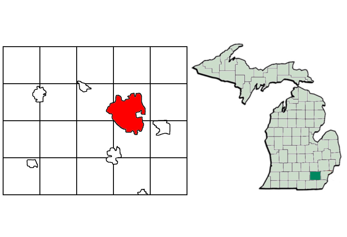 The location of Ann Arbor, Michigan. This is a cleaner version of AnnArbor_Washtenaw.PNG provided on The lines of the map were crooked, but were corrected without losing accuracy. This file will replace AnnArbor_Washtenaw.PNG.